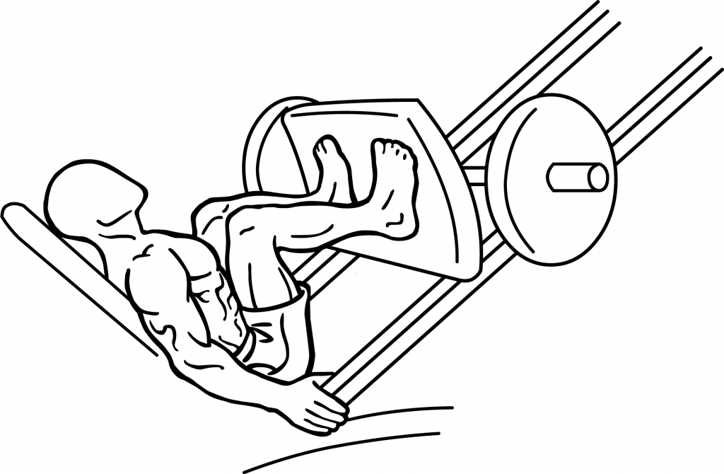 an exercise of thigh